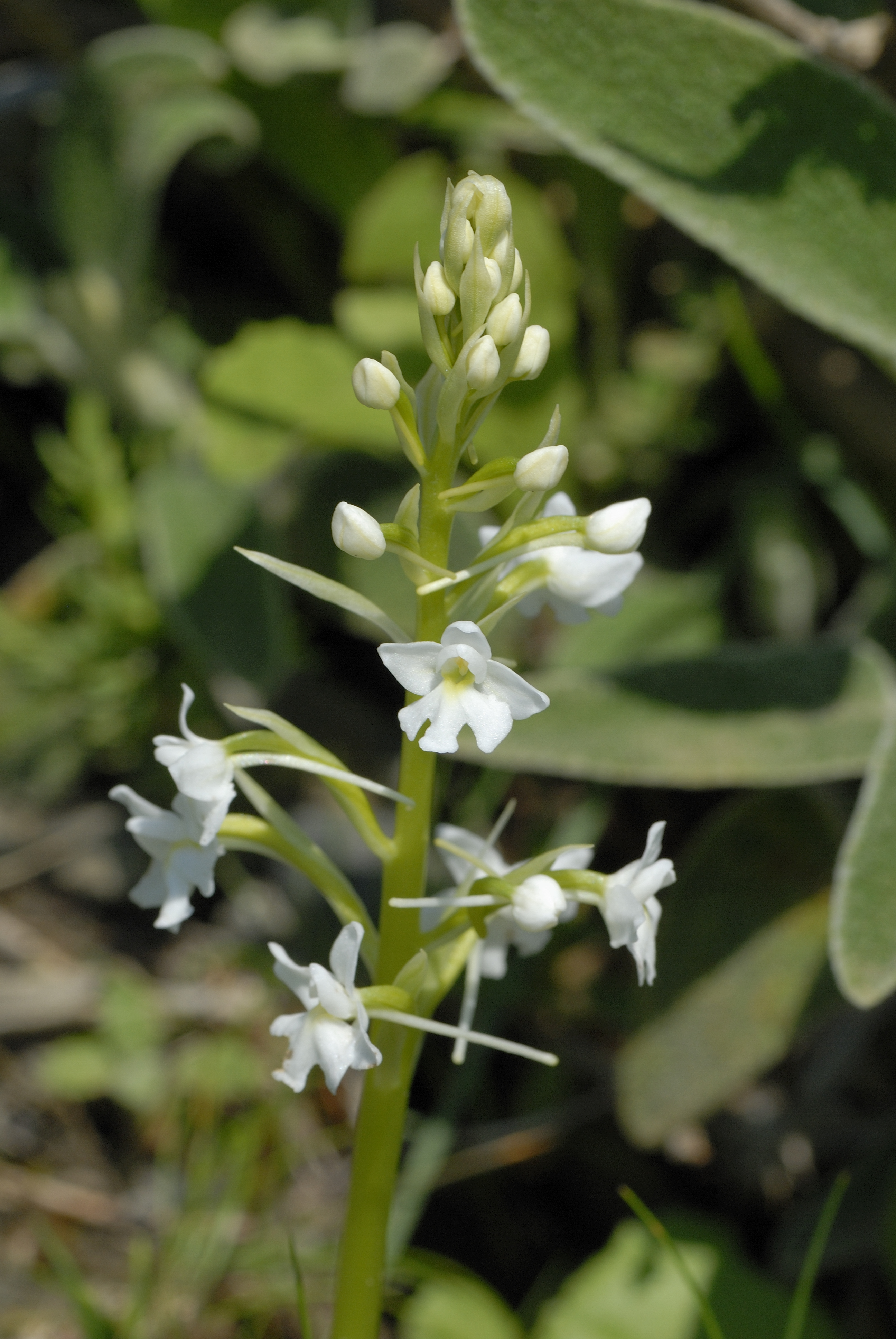 Orchis quadripunctata Gerakari/Crete